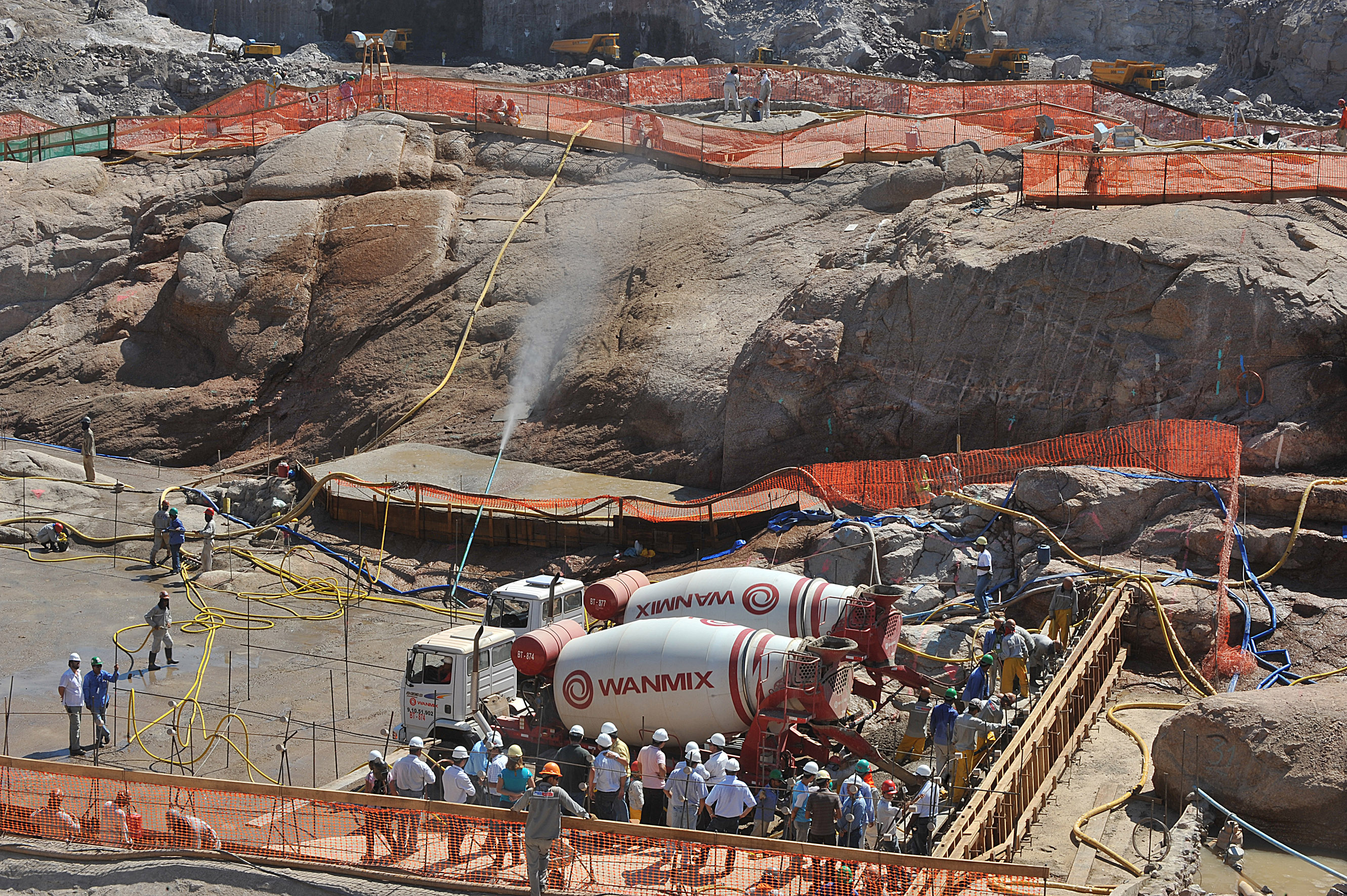 Workers in Santo Antônio Dam.